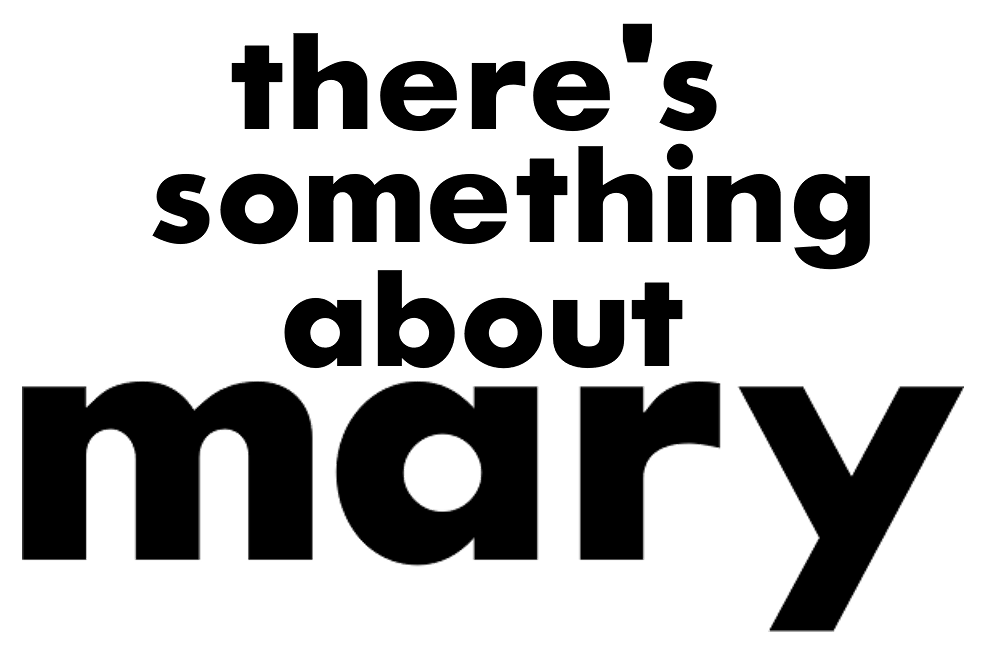 Logo of the film There's Something About Mary without background.